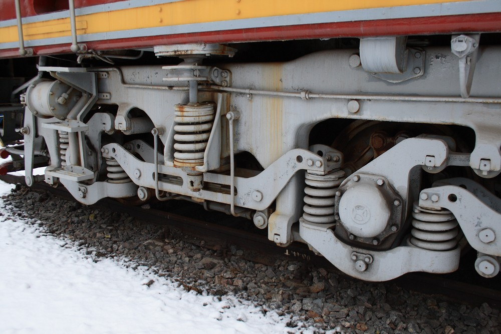 Bogie of TEP60 Soviet diesel locomotive.